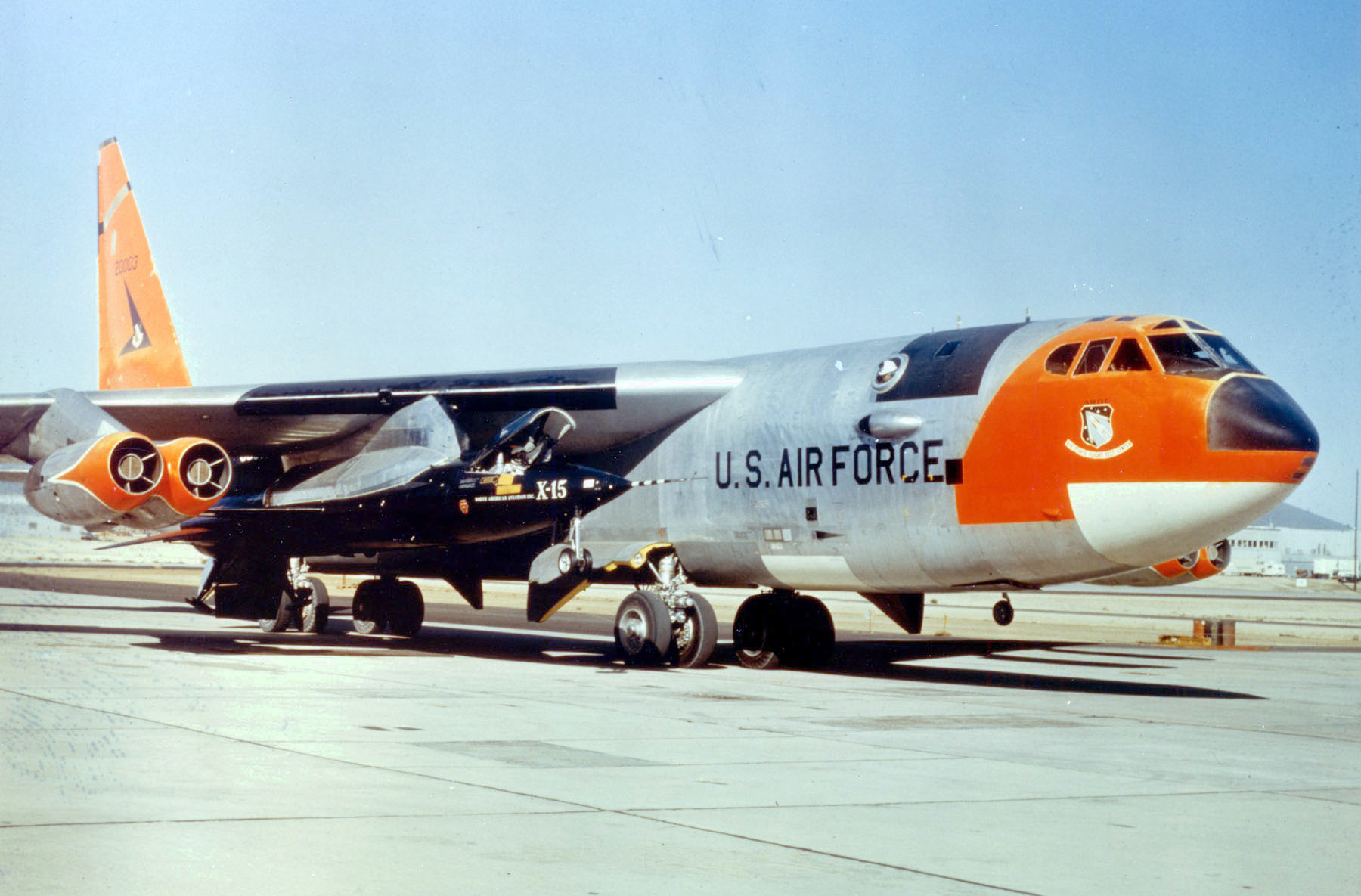 Boeing NB-52A with X-15 No. 1 (SN 56-6670)